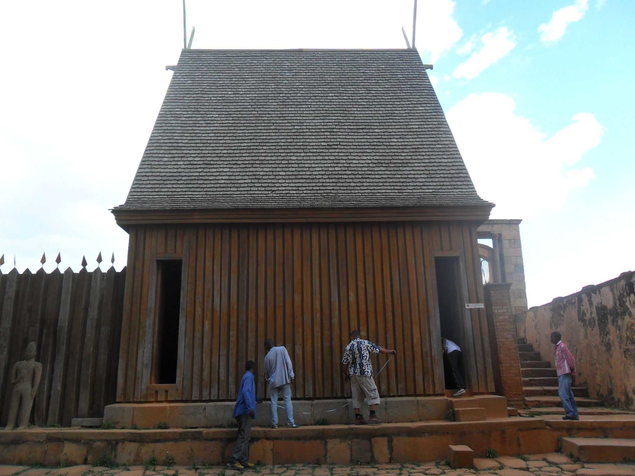 Mahitsielafanjaka, palais du Roi Andrianampoinimerina dans l'enceinte royale de la colline sacrée d'Antananarivo